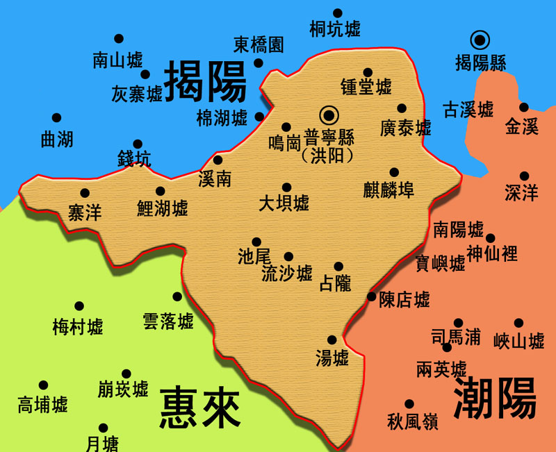 Puning, Jieyang